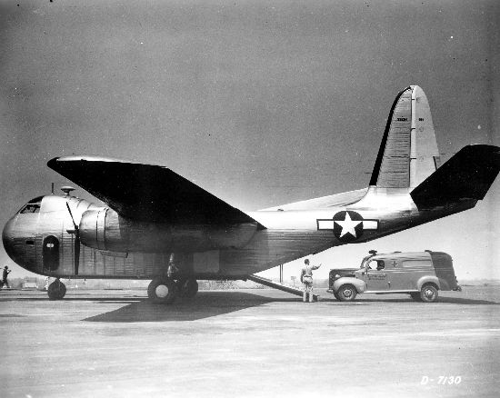 Budd RB-1 "Conestoga" all-stainless-steel transport aircraft being loaded.